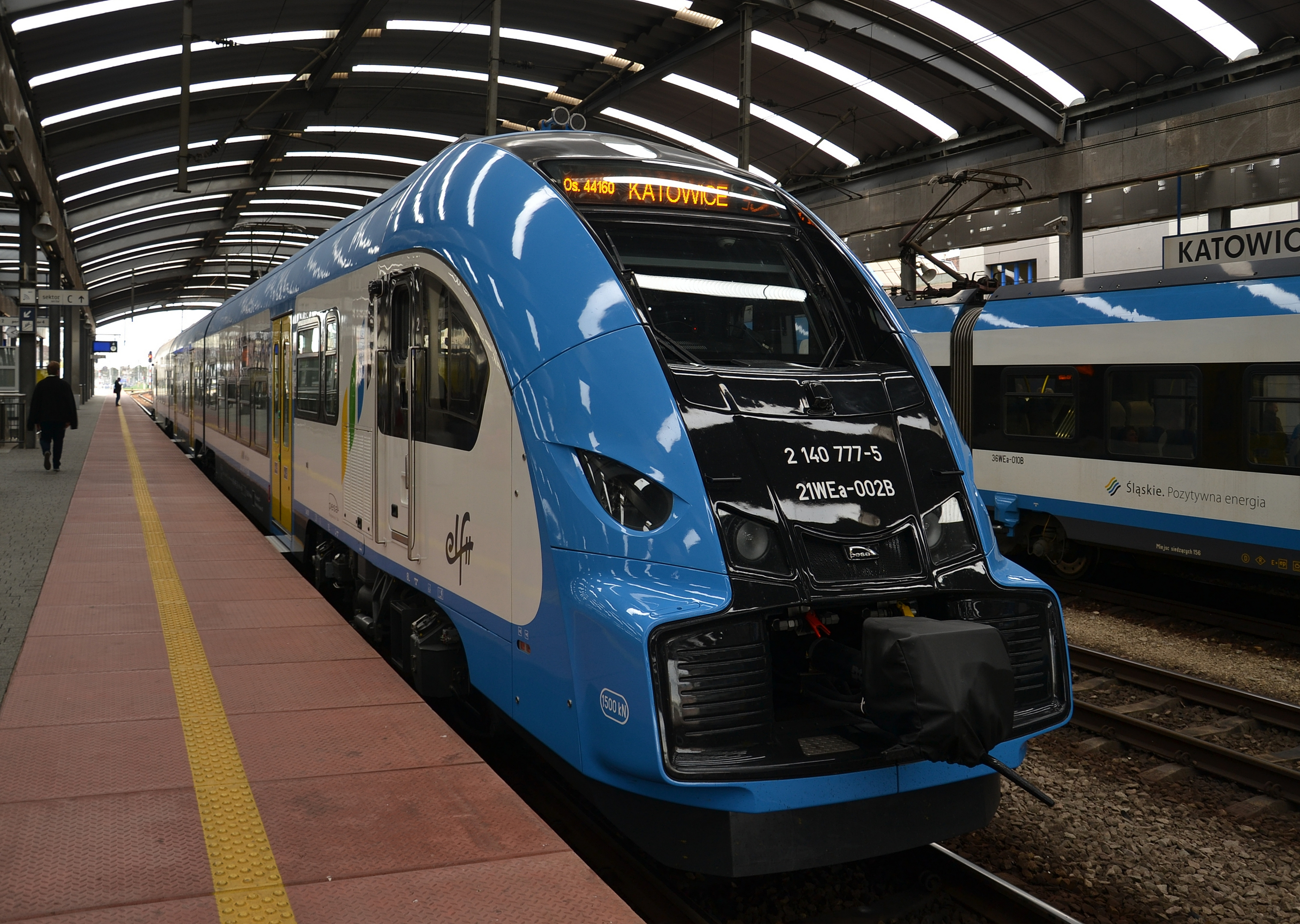 Pesa ELF II - electric multiple unit in Katowice (Kattowitz), Upper Silesia